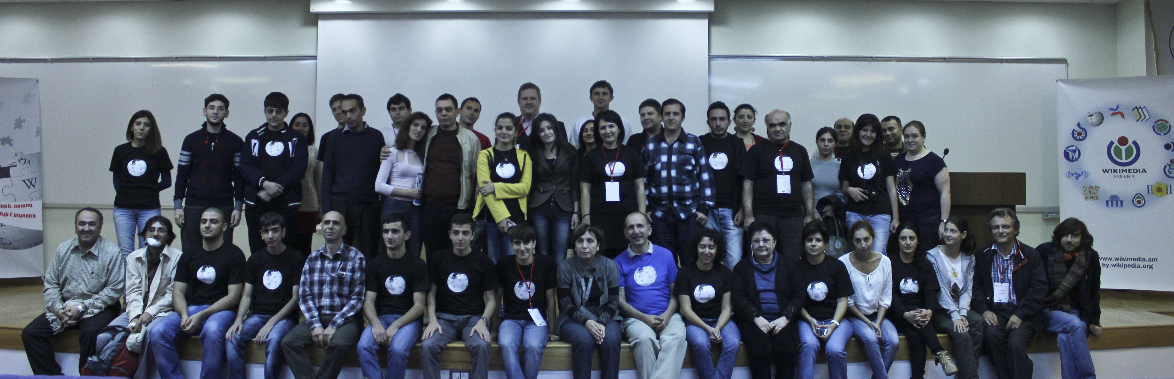 WikiConference Yerevan 2013